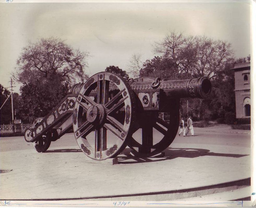 Zamzamah-c1950s